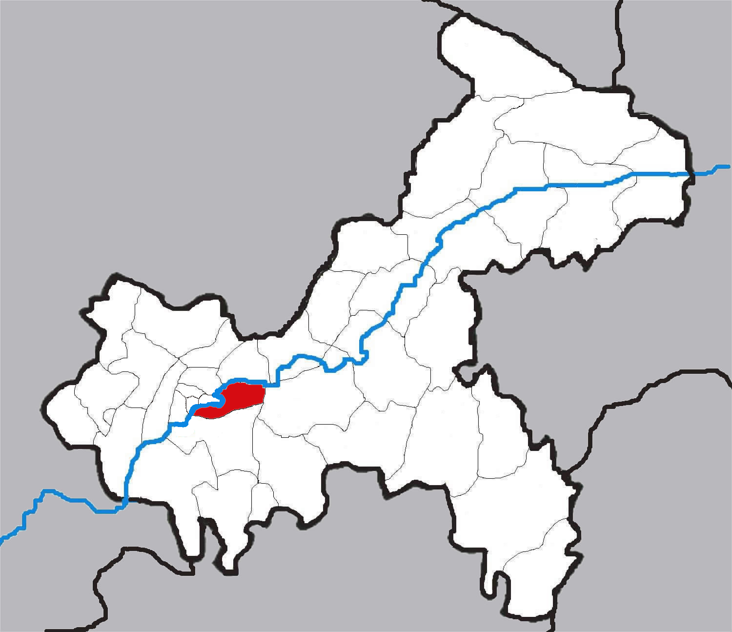 Administration maps of Chongqing, China